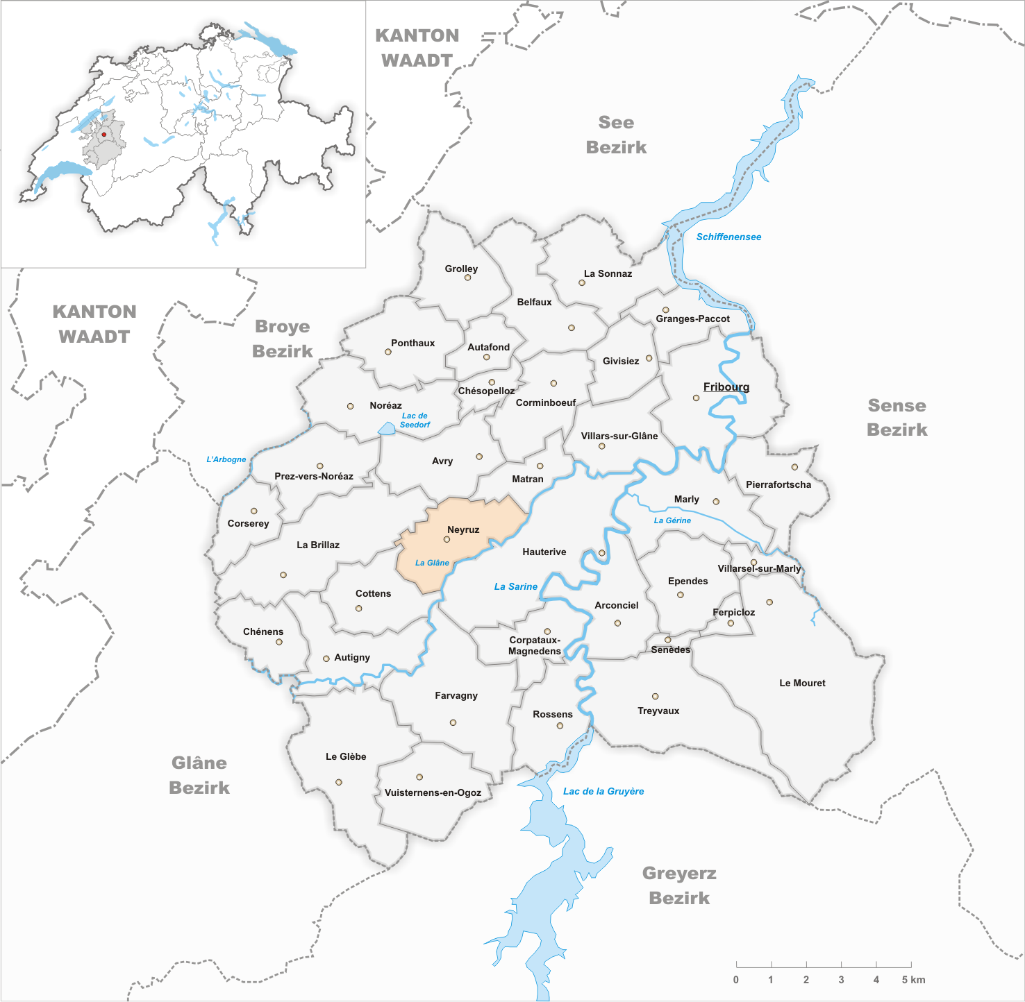 Municipality Neyruz